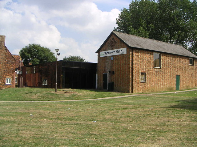 Sycamore Hall. Only just inside SP8732, the Sycamore Hall is a private hire facility owned by the council.